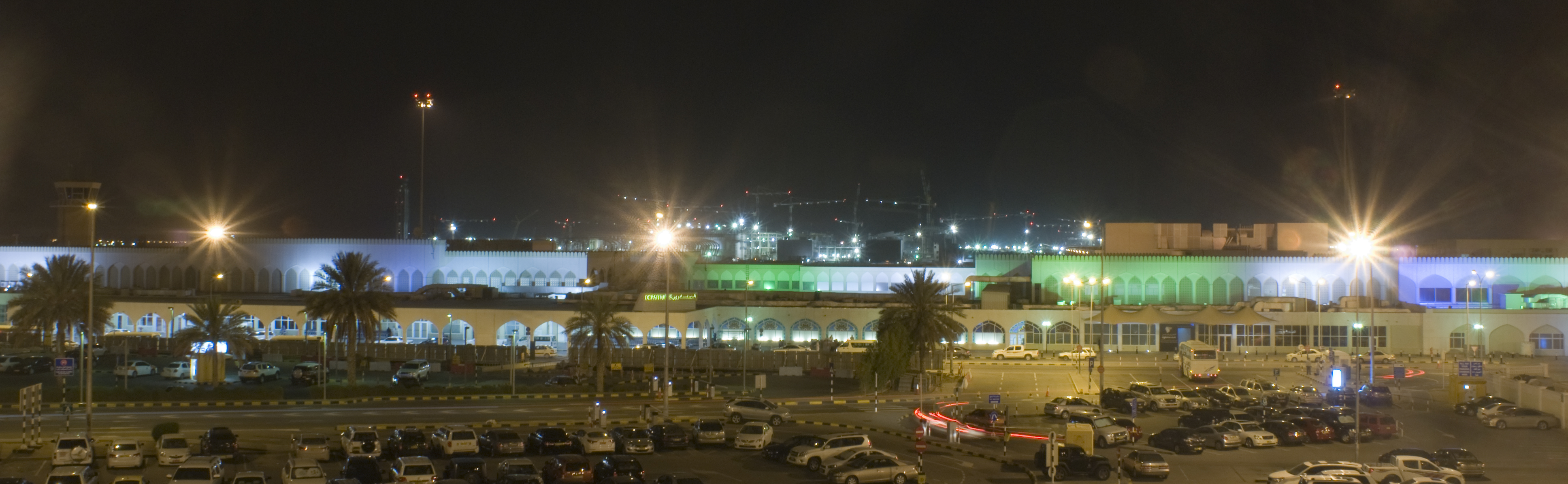 Muscat Airport at Night, construction site of the new terminal is visible in the beackground